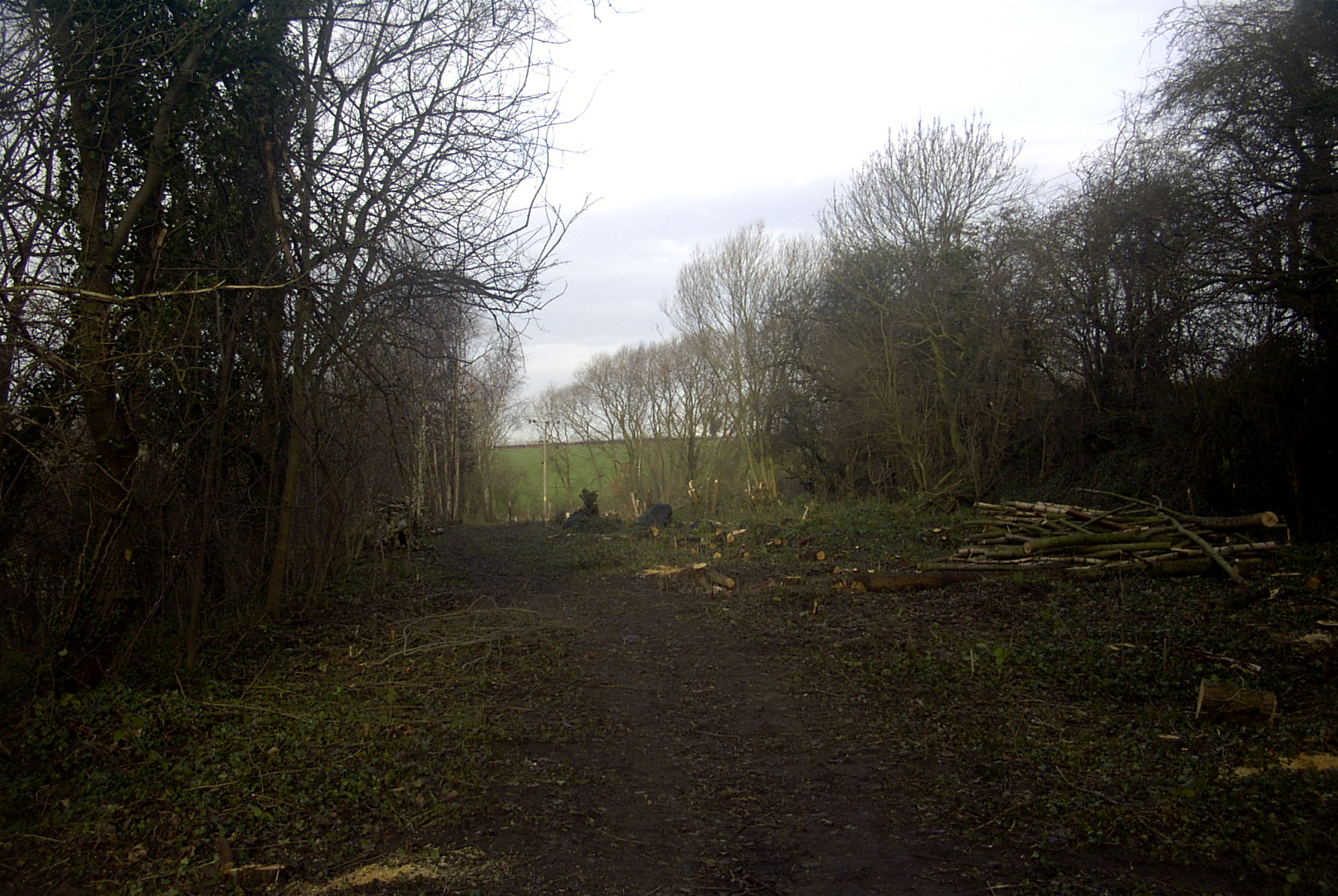 taken by myself. a section of the Chesterfield Canal near renishaw undergoing the first stages of restoration. Summary taken by myself. a section of the Chesterfield Canal near renishaw undergoing the first stages of restoration.